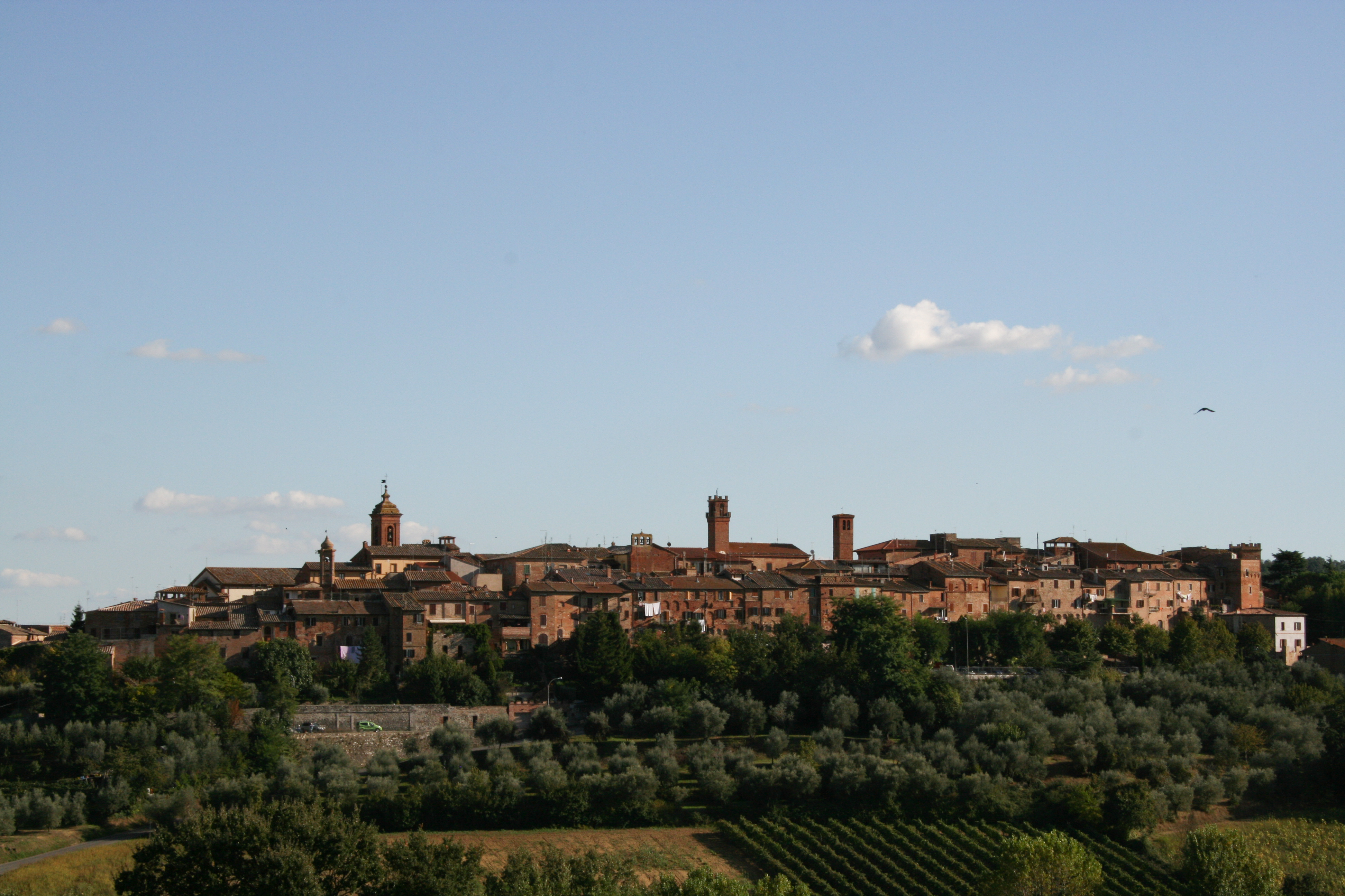 The old town view from the northern hill.